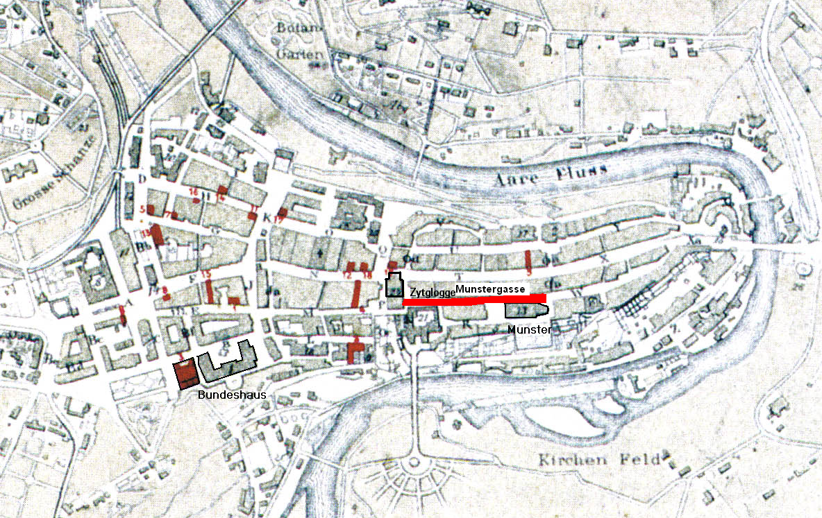 City plan of Bern, 1882. Scanned from BERN: Eine Stadt vor 100 Jahren, Bilder und Berichte; Peter Lauenberger, Emil Erne; München 1997; p. 7. Originally from Bern und seine Umgebungen, C.H. Mann, 1882 in the Alpines Museum of Bern. Due to the age of the image, it must be assumed that the author has been dead for more than 70 years. Copyright protection has therefore lapsed under Swiss copyright law (Art. 29 par. 3 URG).